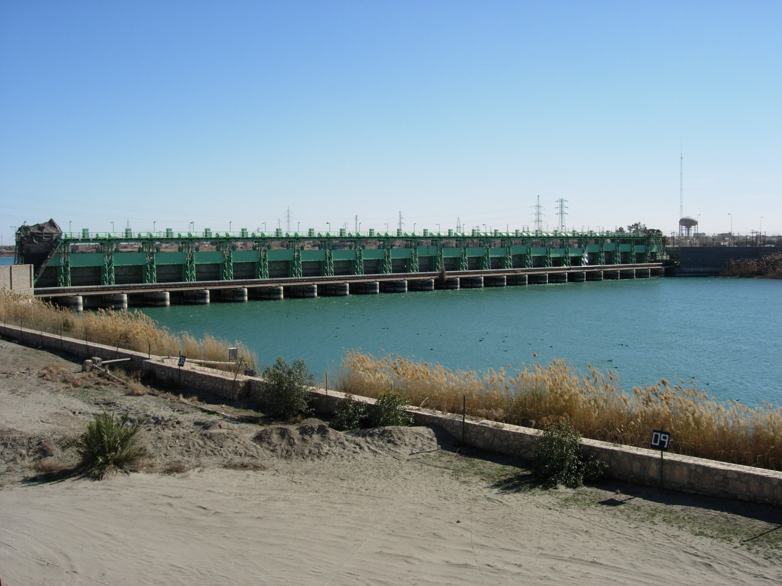 The southern gates of the Ramadi Barrage.